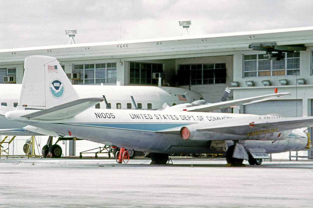 Martin RB-57A N1005 of the NOAA at Miami Airport in 1975